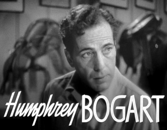 Cropped screenshot of Humphrey Bogart from the trailer for the film Dark Victory.